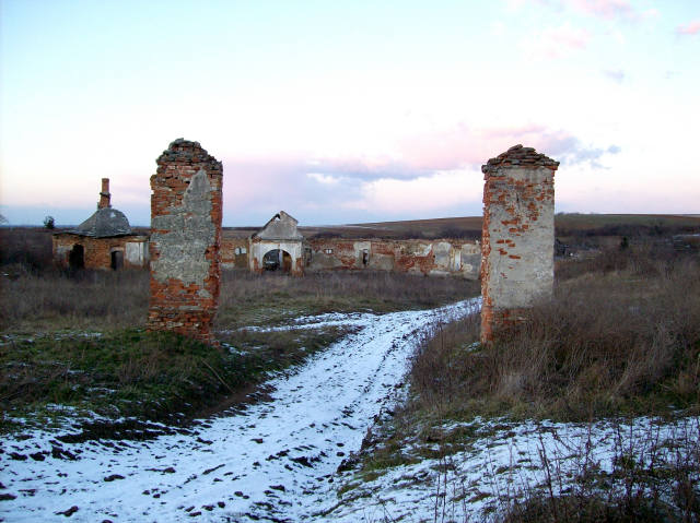 Târguşor, Bihor County